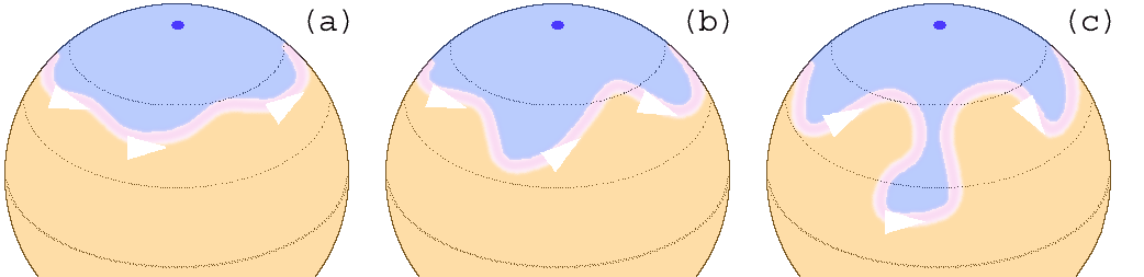 Jetstream, Rossby Waves, N hemisphere.